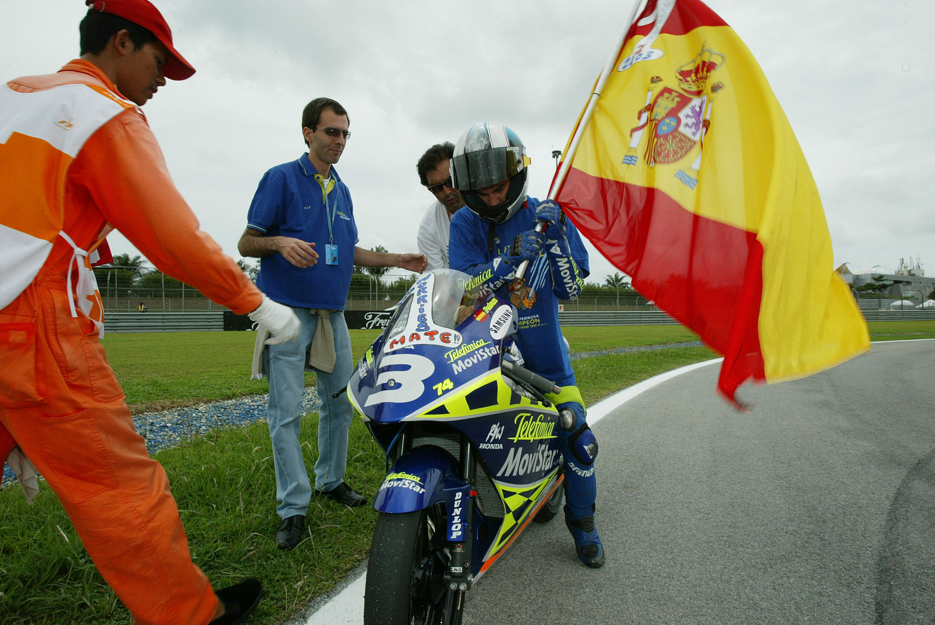 Dani Pedrosa, sitting on his 125cc Telefónica Movistar Honda, celebrating his first ever world championship with the Spanish flag at the 2003 Malaysian Grand Prix.